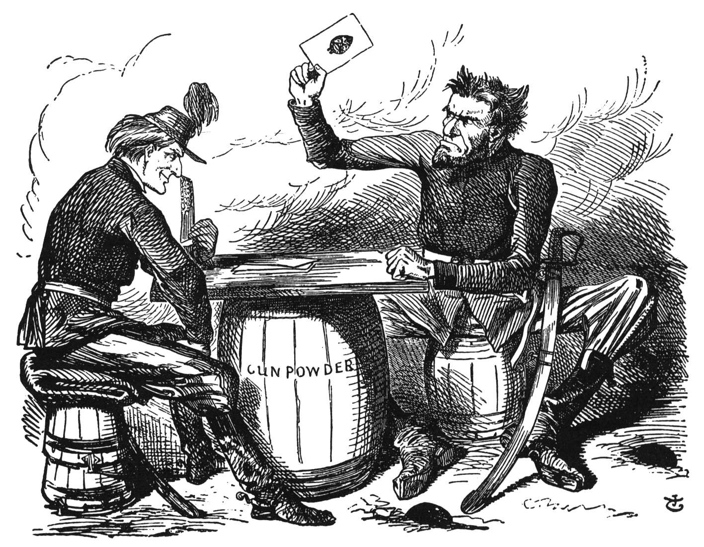 1862 cartoon scanned from paper copy